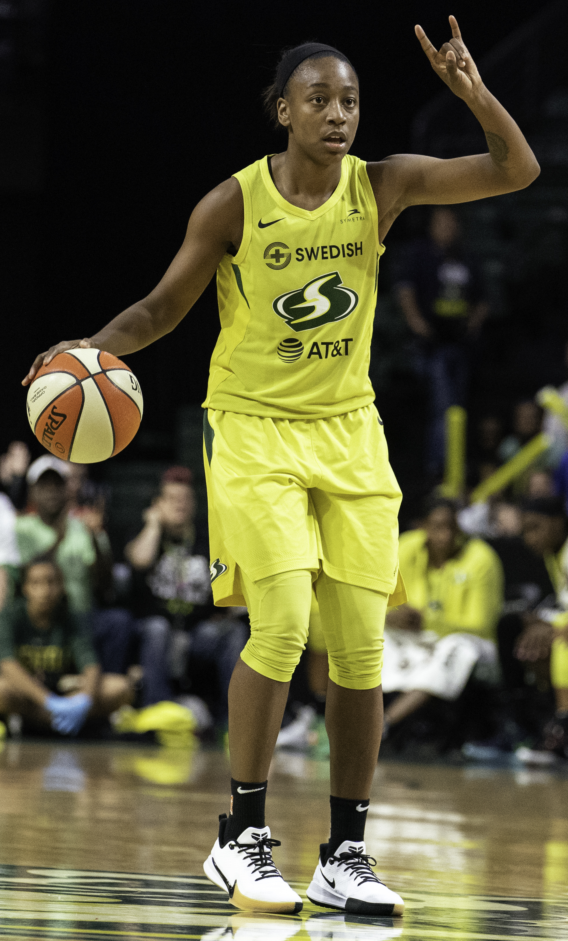 Seattle Storm player Jewell Loyd during a game against the Minnesota Lynx